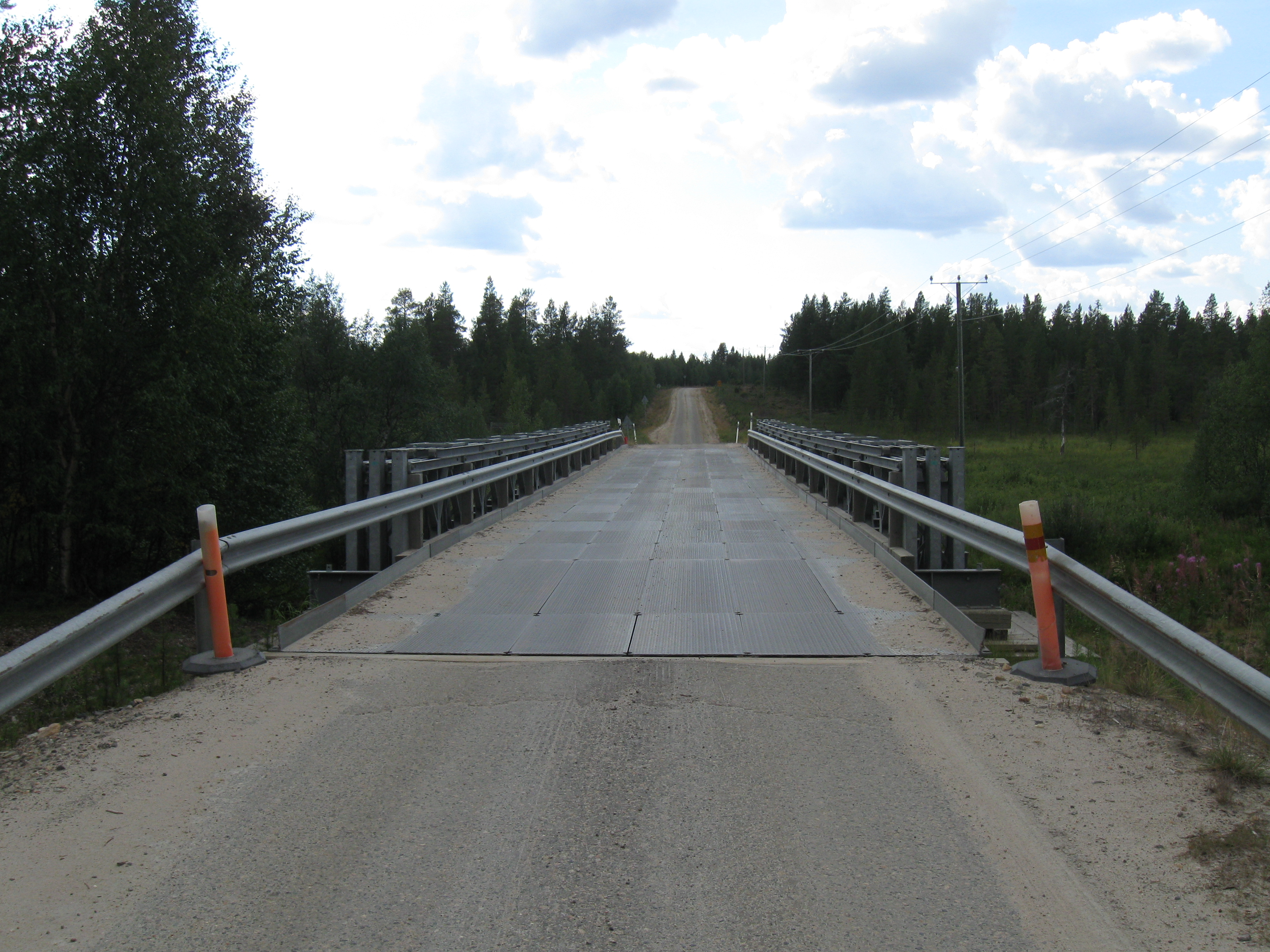 Connecting road 9671 towards West at the bridge over the Tulppio river in Tulppio, Savukoski, Finland.